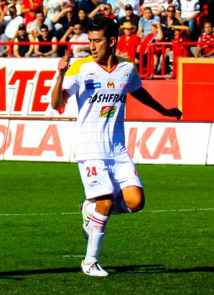 Morelia player Marvin Cabrera